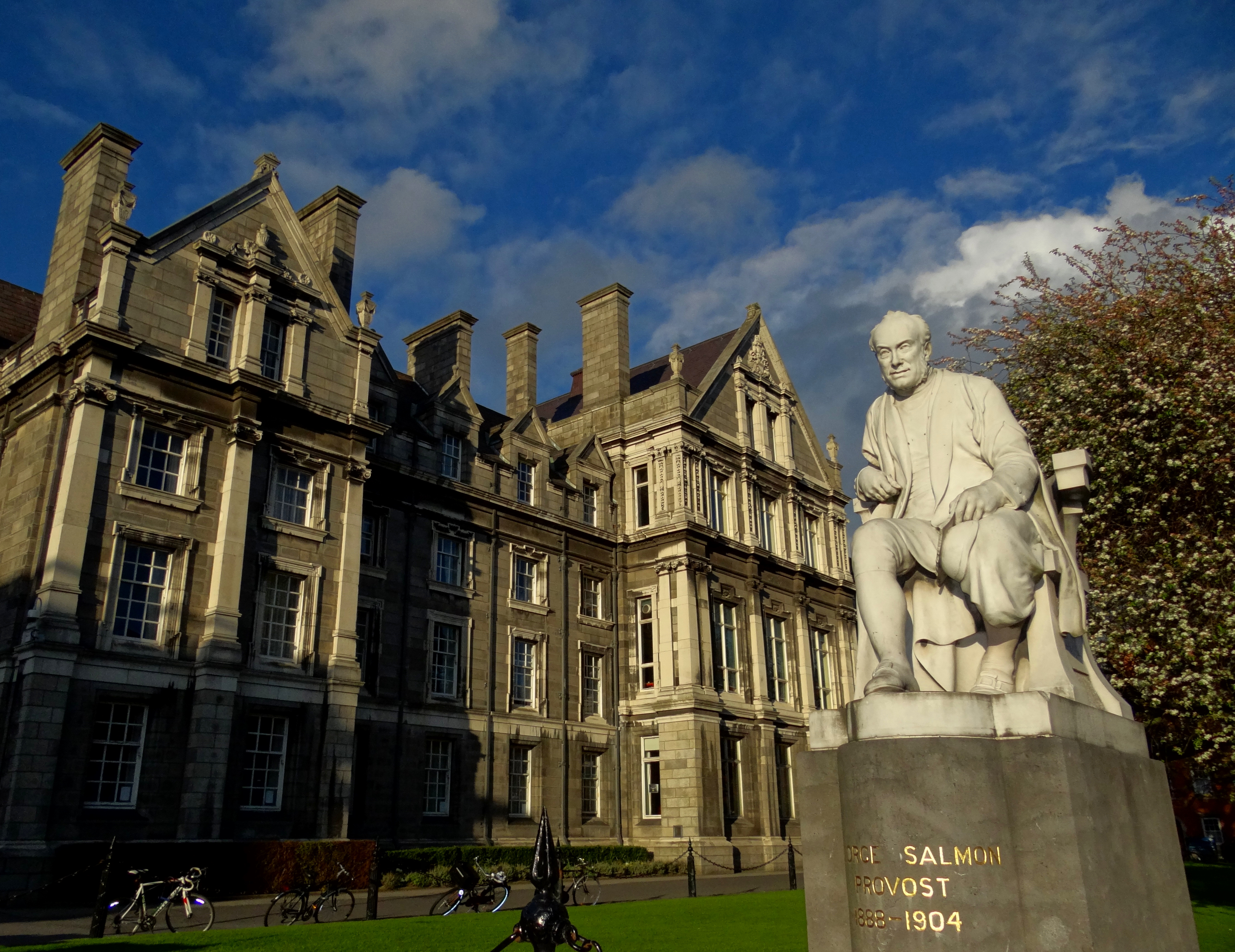 A sculpture by John Hughes, showing Provost of Trinity College, George Salmon. The statue is located next to the campanile in the courtyard of Trinity College.